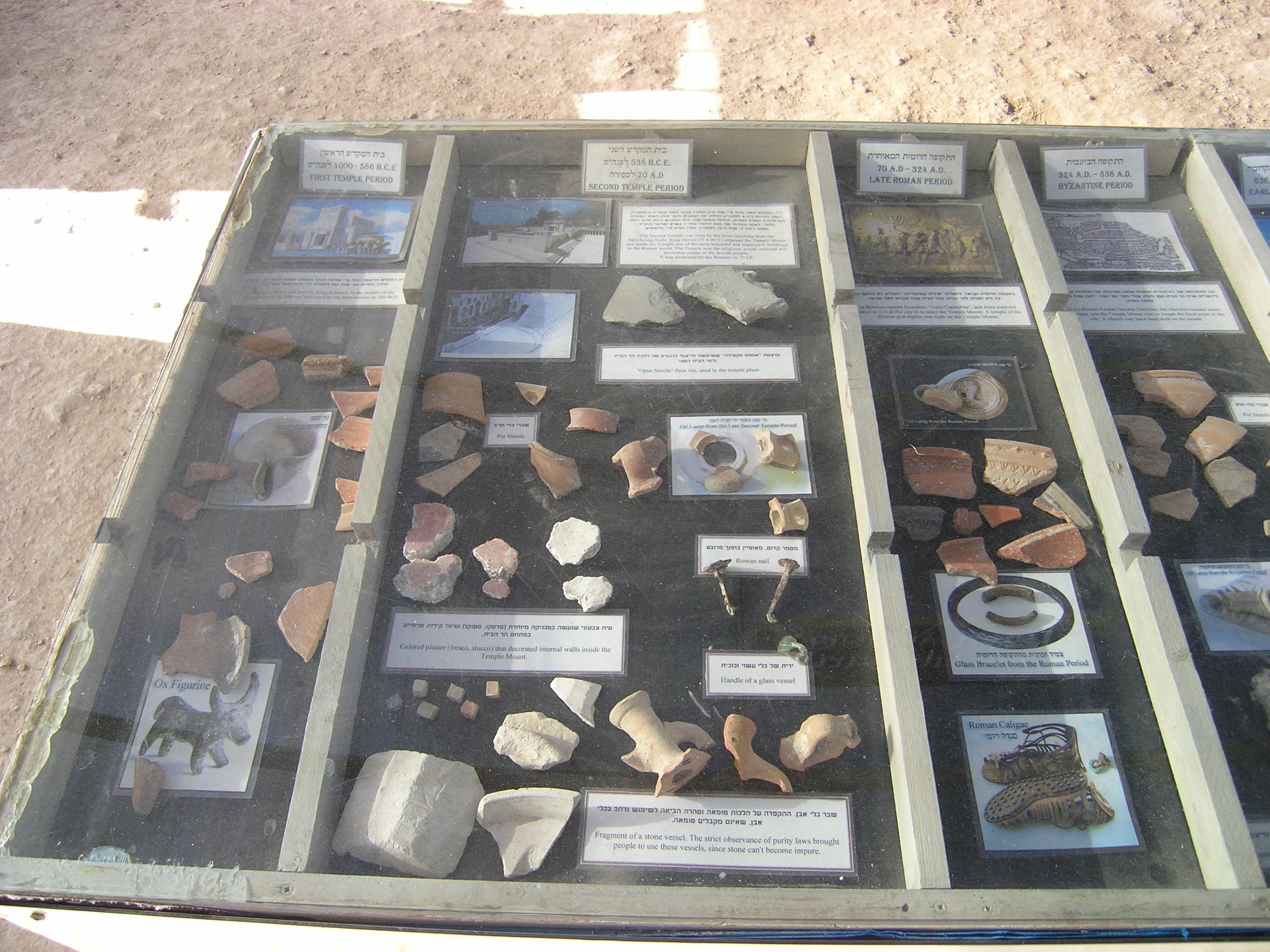 Temple Mount Sifting Project, Jerusalem, 2016, Display Table